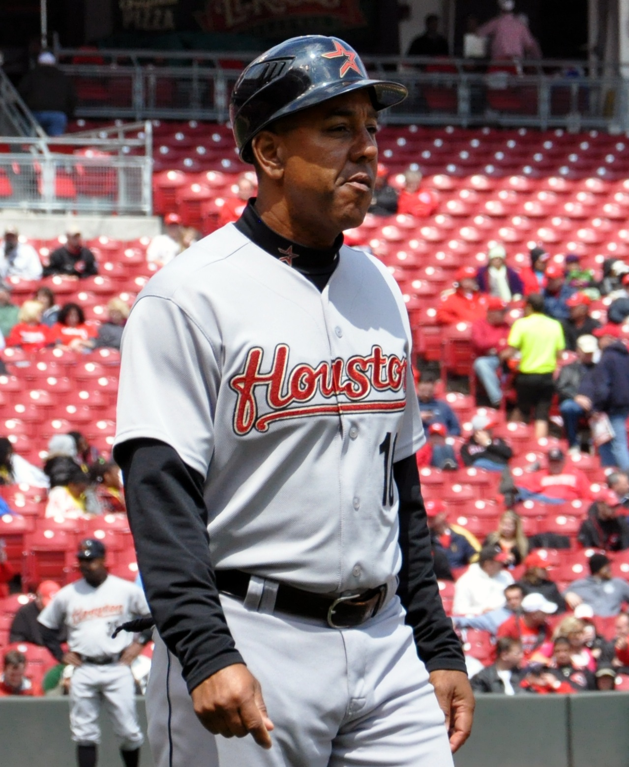 Former Yankee, Bobby Meacham coaches first for the Astros